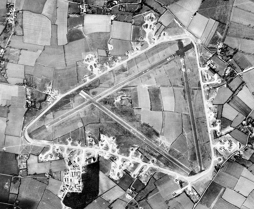 Aerial photograph of Great Ashfield airfield 31 March 1944. Photograph taken by 7th Photographic Reconnaissance Group, sortie number US/7PH/GP/LOC264. English Heritage (USAAF Photography). Locations